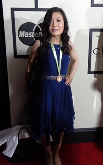 Nomination for 'Best New Age Album' at 58th Grammy Awards